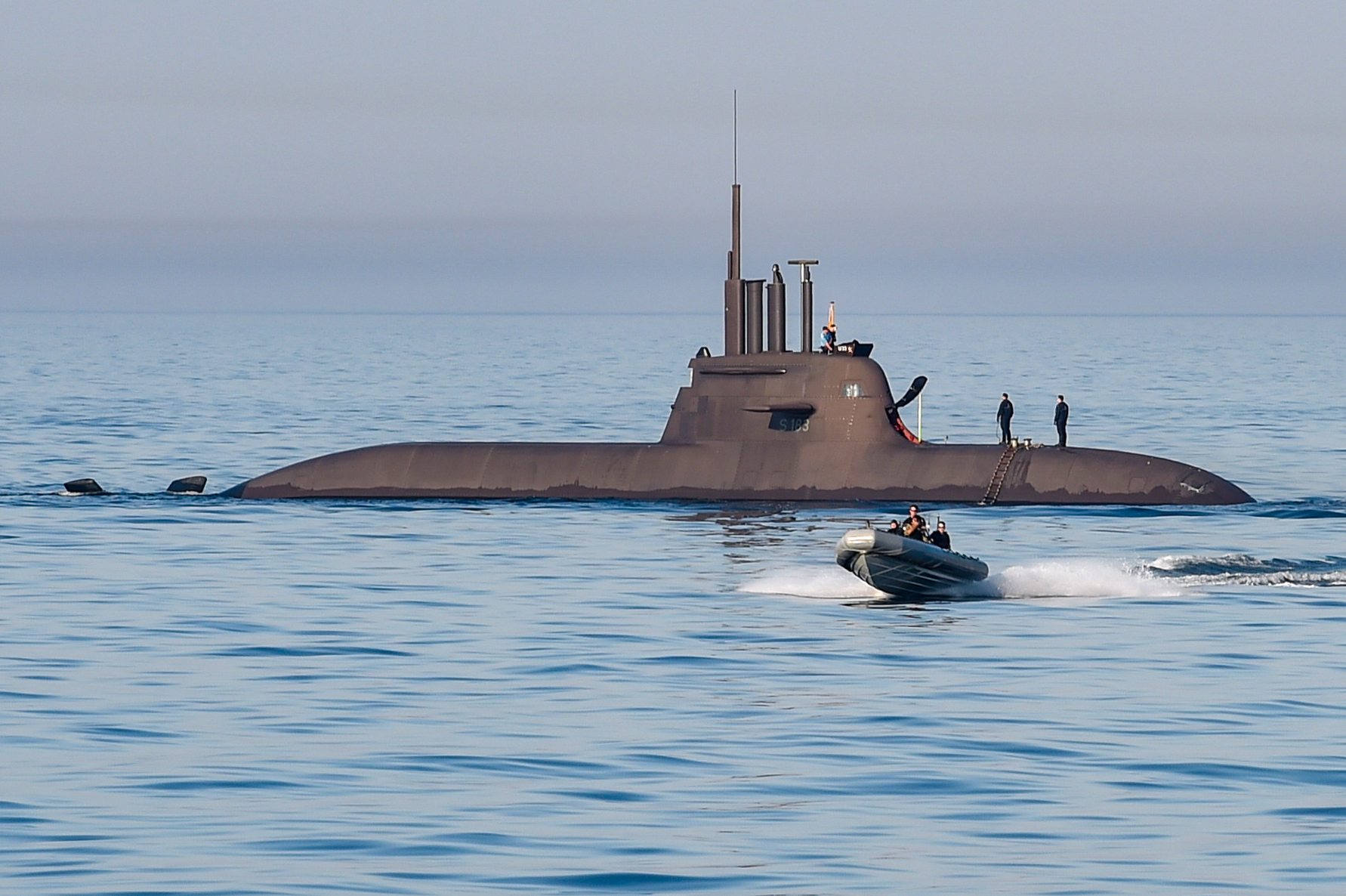 A rigid-hull inflatable boat from the U.S. Navy guided-missile destroyer USS Gravely (DDG-107) departs the German submarine U-33 (S 183) during a passenger transfer exercise in the Baltic Sea on 5 June 2019.